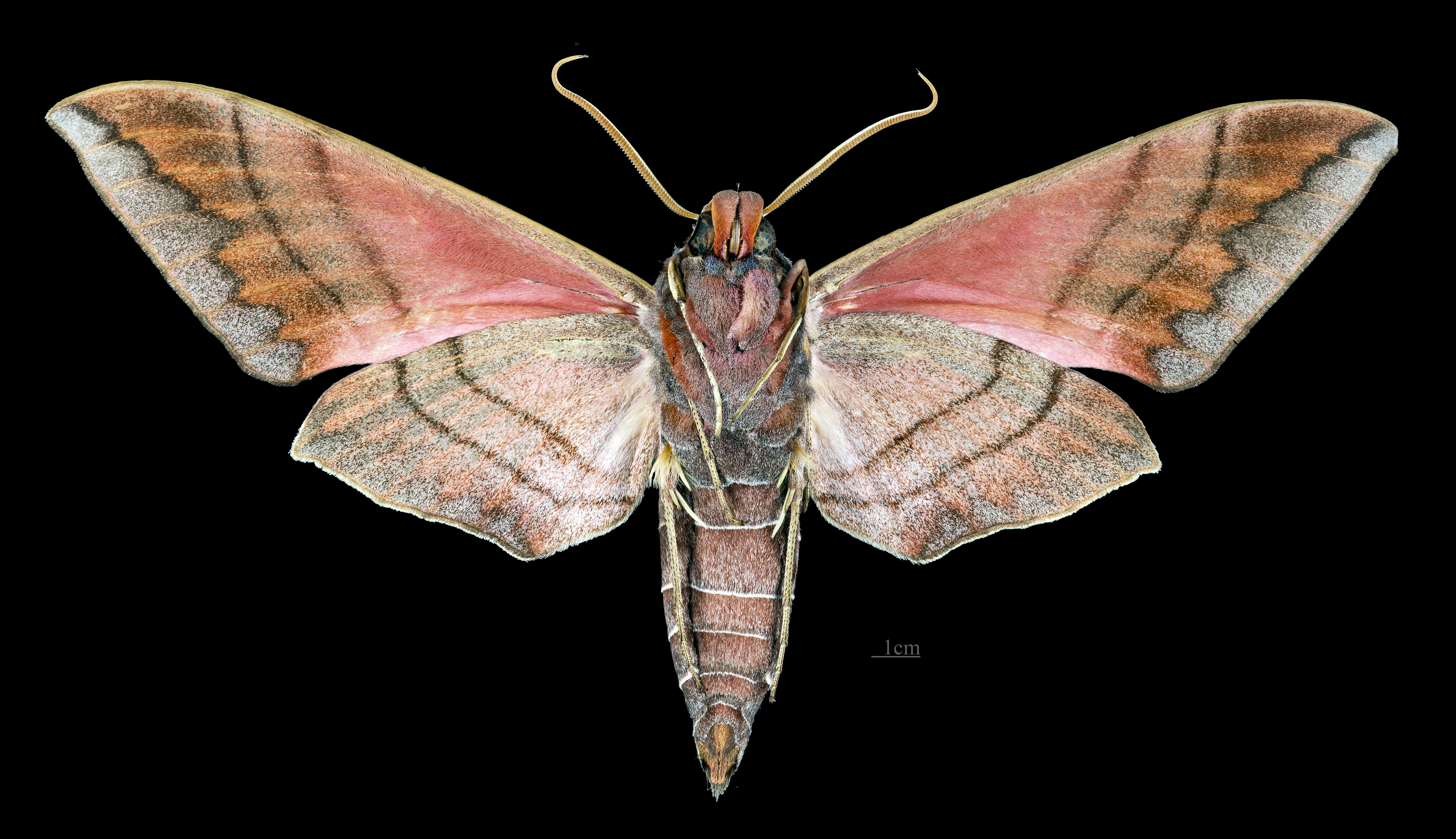 Eumorpha typhon - △ Ventral sid Collection of the Mathematician Laurent Schwartz